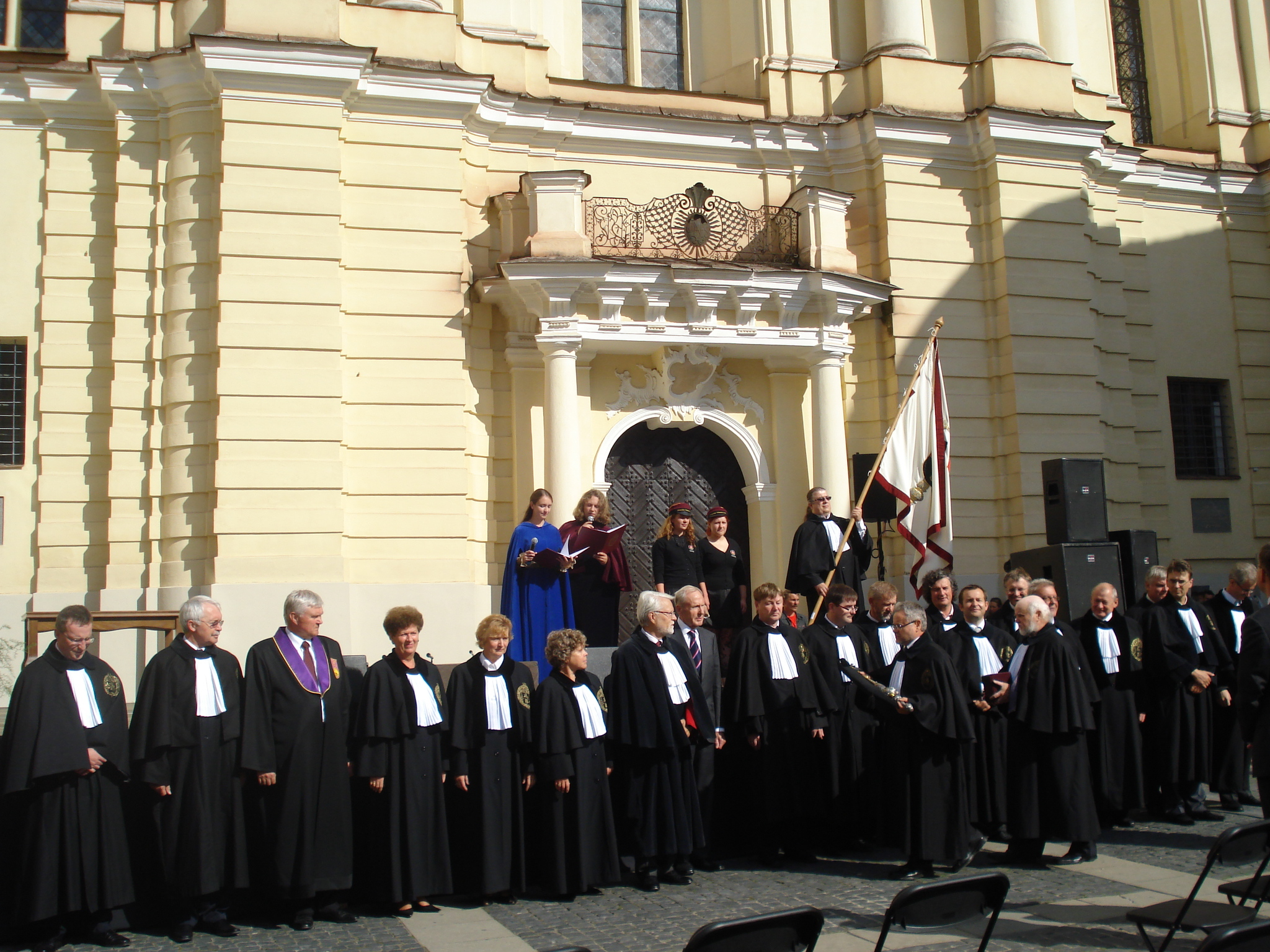 The Senate of Vilnius University at the Church of St. Johns. 2009.09.01